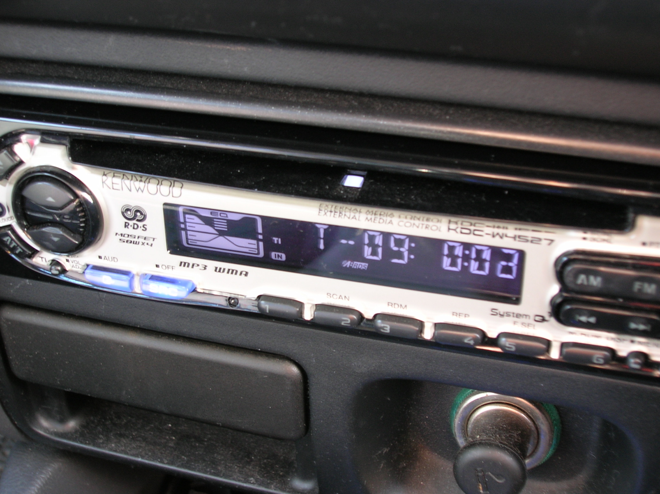 A CD player as a car stereo.